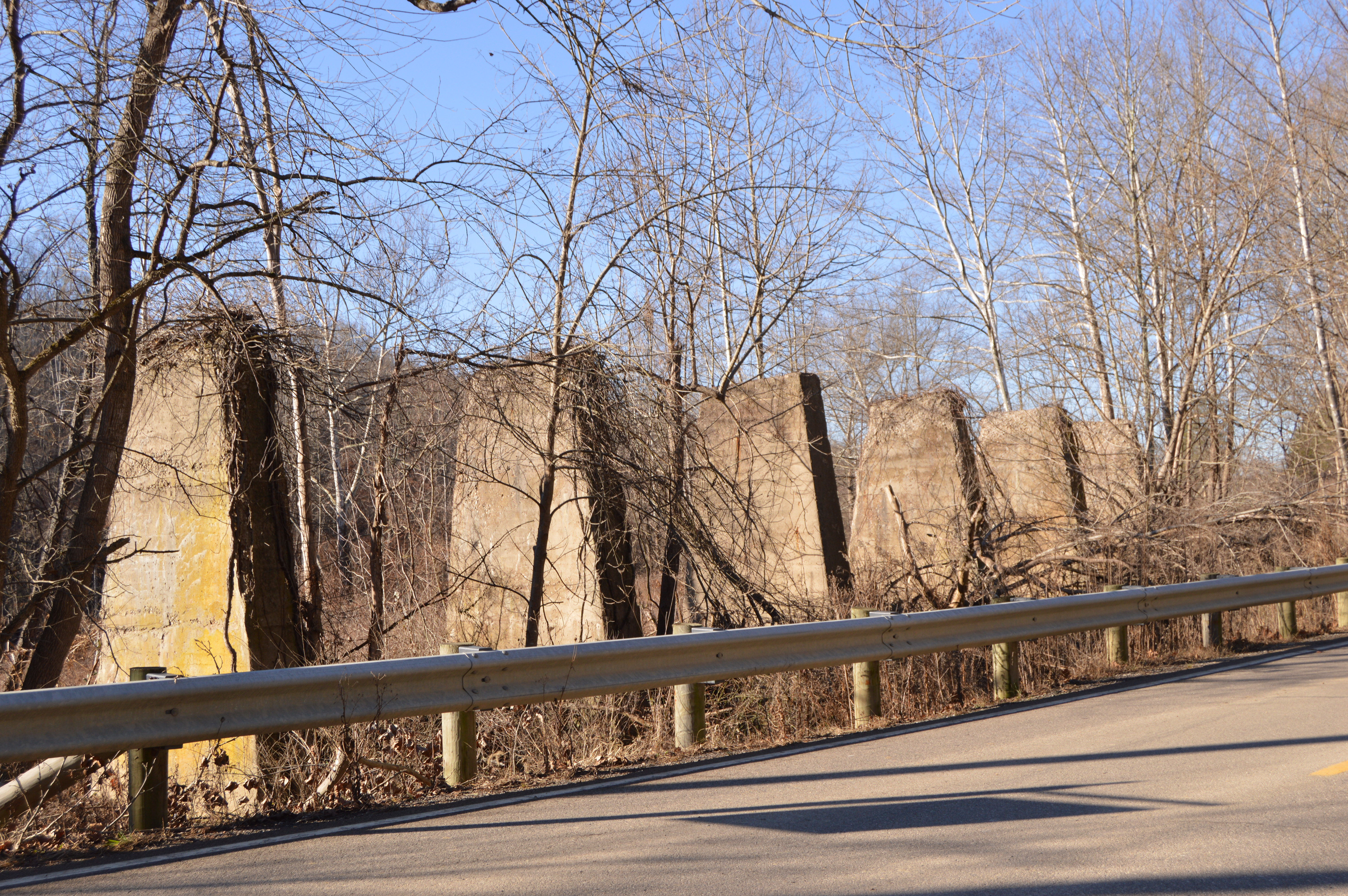 Megaliths, seemingly abutments for a no-longer-extant railroad viaduct, located along State Route 93 west of New Straitsville in Coal Township, Perry County, Ohio, United States.